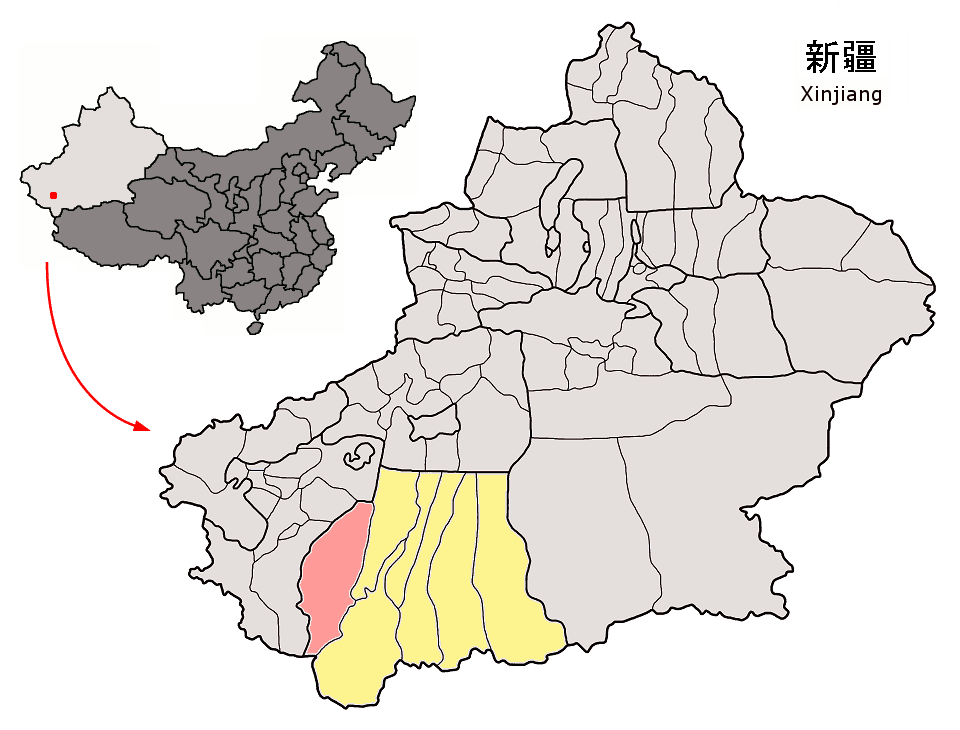 Location of Pishan County (pink) and Hotan Prefecture (yellow) within Xinjiang autonomous region of China Map drawn in september 2007 using various sources, mainly : Xinjiang Uygur autonomous region administrative regions GIS data: 1:1M, County level, 1990 Xinjiang Counties map from